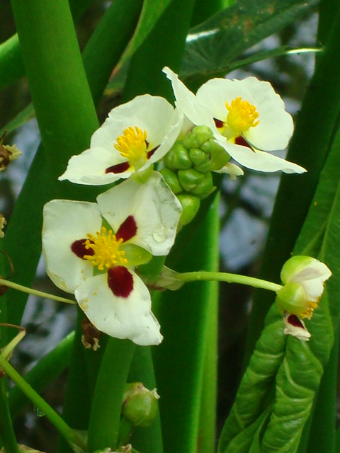 Picture of Sagittaria montevidensis